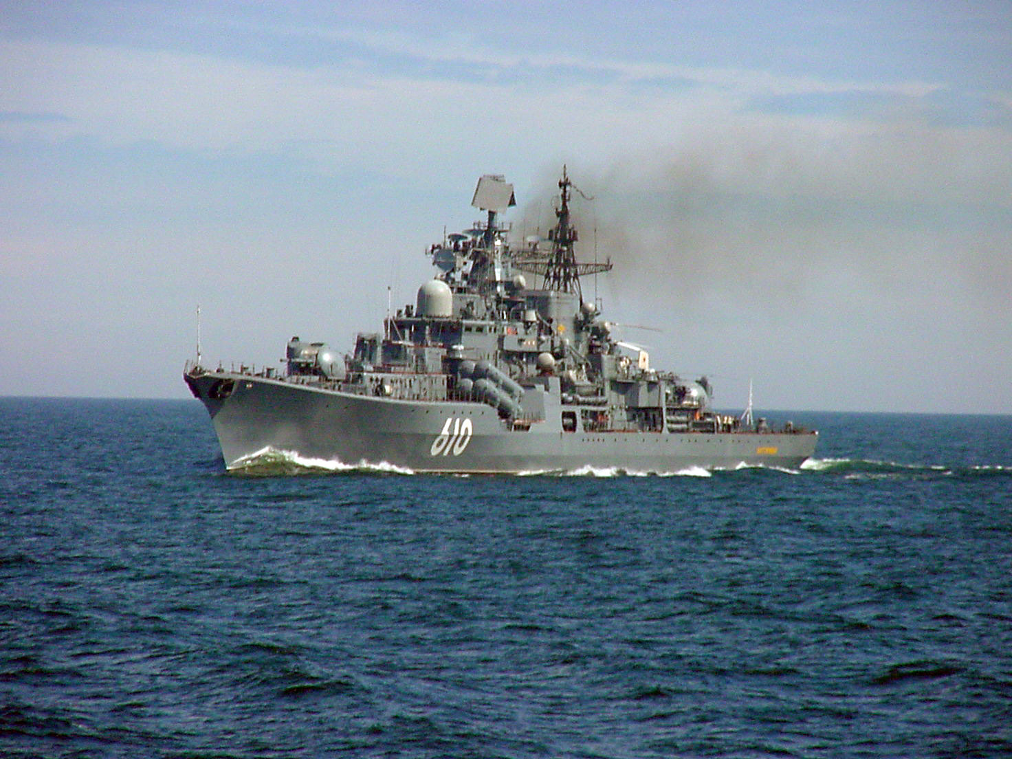 Ventspils, Latvia (June 6, 2005) – Russian destroyer RFS Nastoychivyy (DD 610) is currently underway participating in Baltic Operations (BALTOPS) 2005. In its 33rd year, BALTOPS is a maritime and land international exercise, co-hosted by Latvia and the United States, which includes 11 nations, 4,100 people, 40 ships, 28 aircraft and two submarines in the spirit of "Partnership for Peace (PFP)." BALTOPS 2005 improves interoperability with allies and PFP countries by conducting peace support operations at sea to include a combined amphibious landing and a scenario dealing with potential real world crisis. U.S. Navy photo by Cmdr. Jamie Morrison (RELEASED)